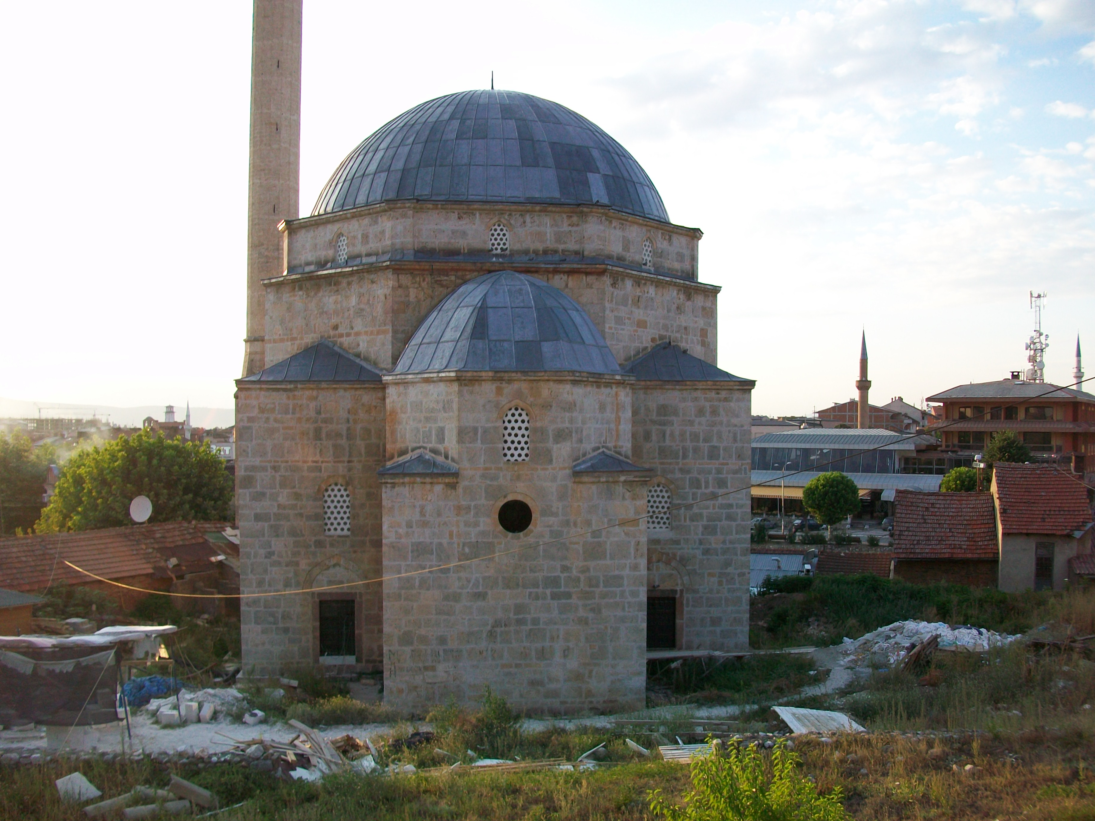 Pictures from Prizren Kosovo